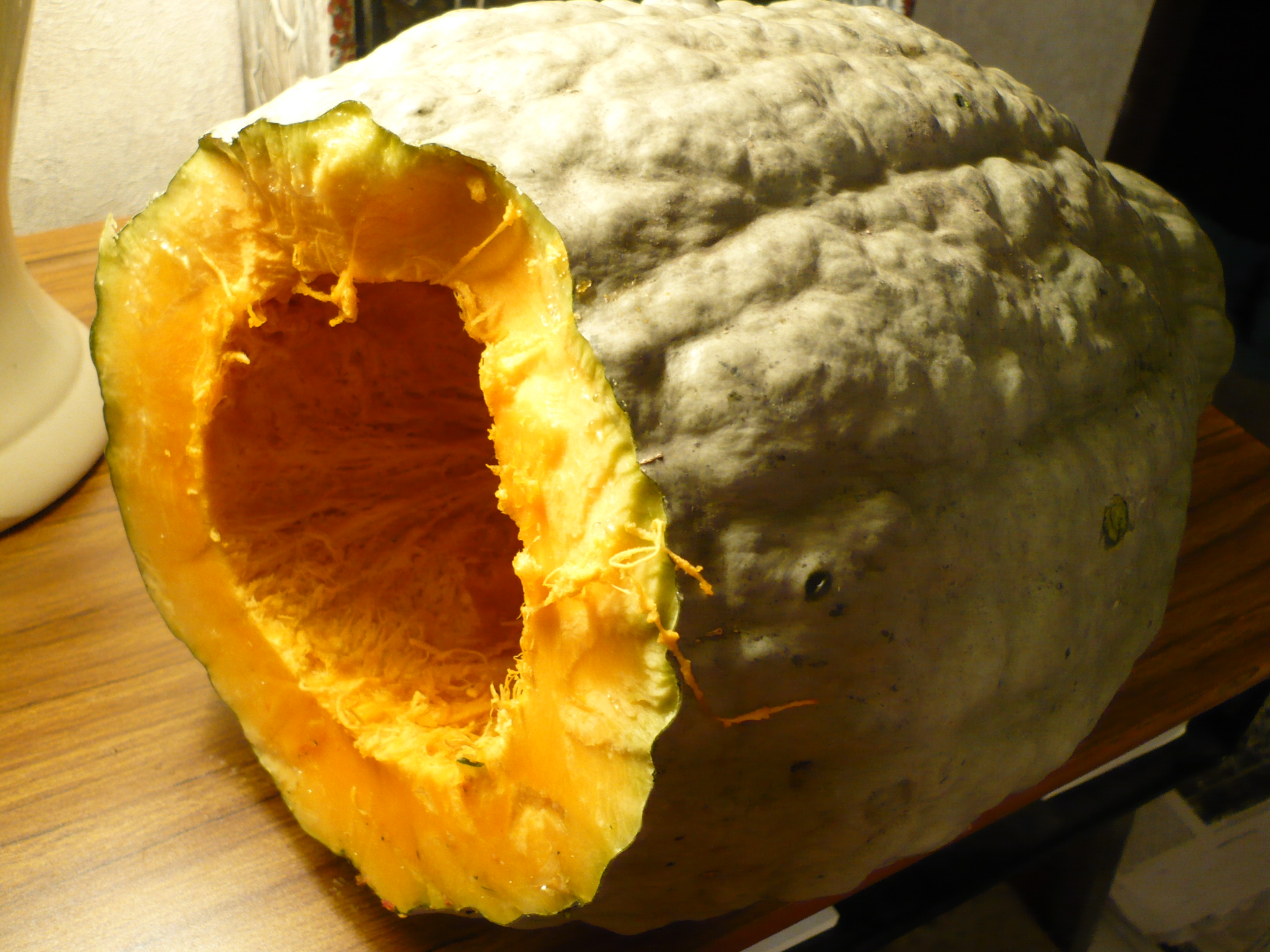 A Blue Hubbard squash (species Cucurbita maxima, a large variety of winter squash), cut, with seeds removed. Blue Hubbard squash purchased in Cuyahoga Falls, Ohio, United States. Photo taken in Kent, Ohio, United States.